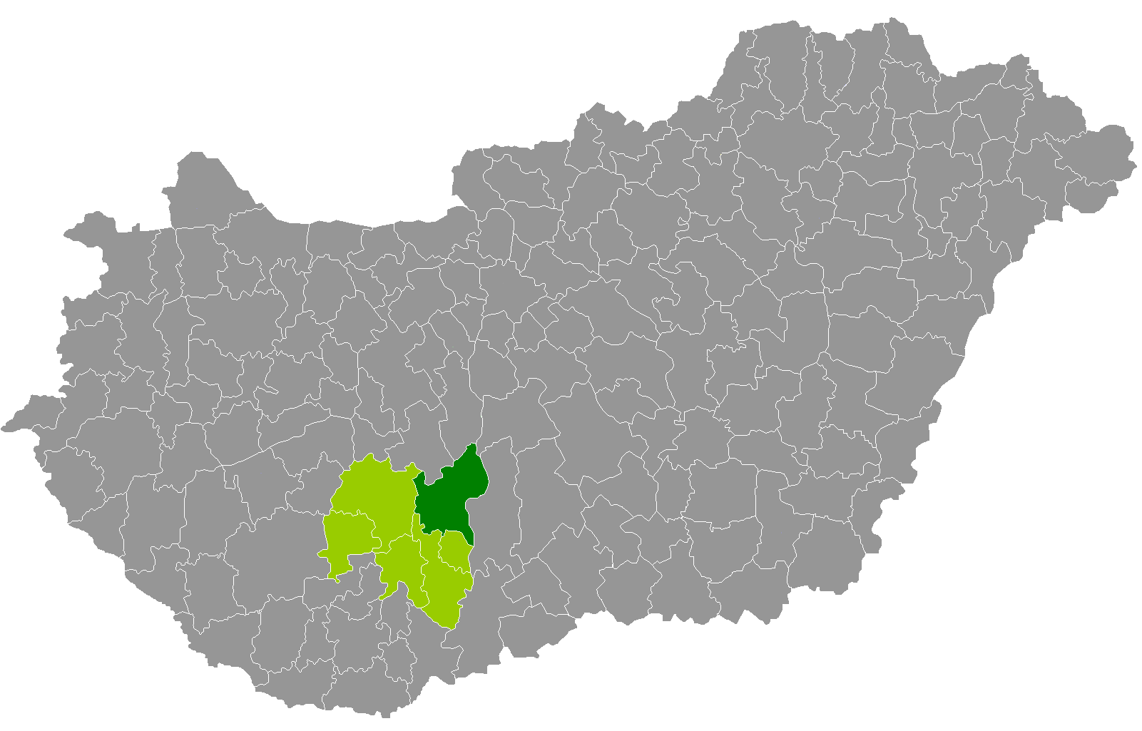 Location of Paks District, Tolna, Hungary